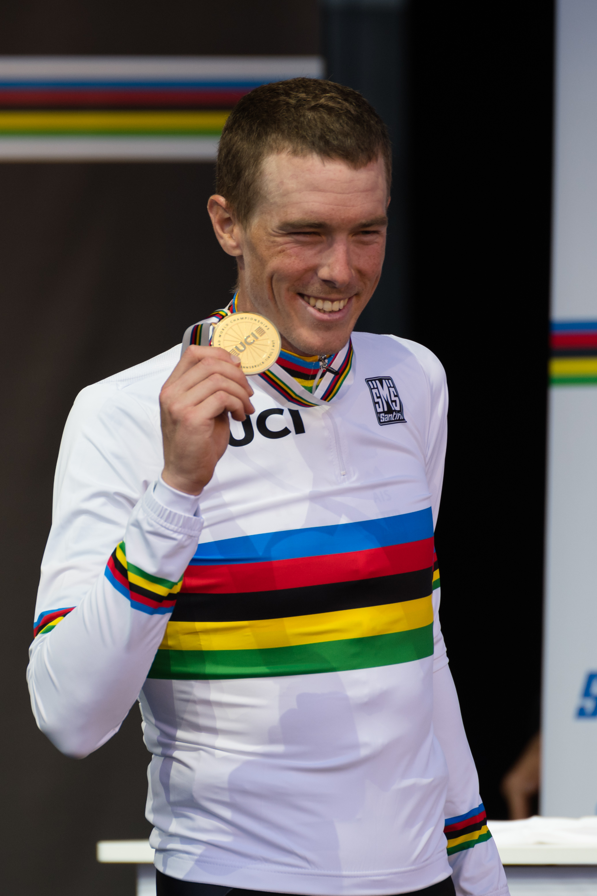 2018 UCI Road World Championships Innsbruck/Tirol Men's Individual Time Trial. Picture shows: Rohan Dennis of Australia